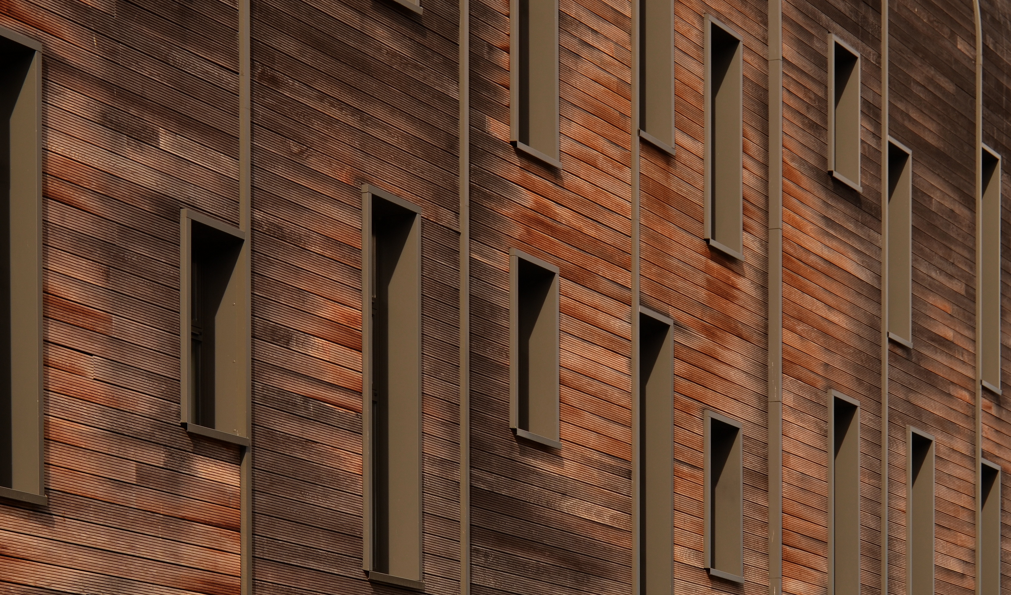 Marina Bydgoszcz, hotel window